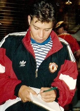 Darren Ferguson, former man. united player and son of Alex Ferguson.